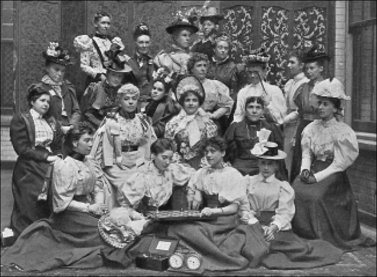 The first Ladies’ International Chess Congress, organized by the Ladies’ Chess Club of London, was held in London from 23 June to 3 July, 1897. The tournament was part of the 60th anniversary of the reign of queen Victoria, who was a chess player herself.